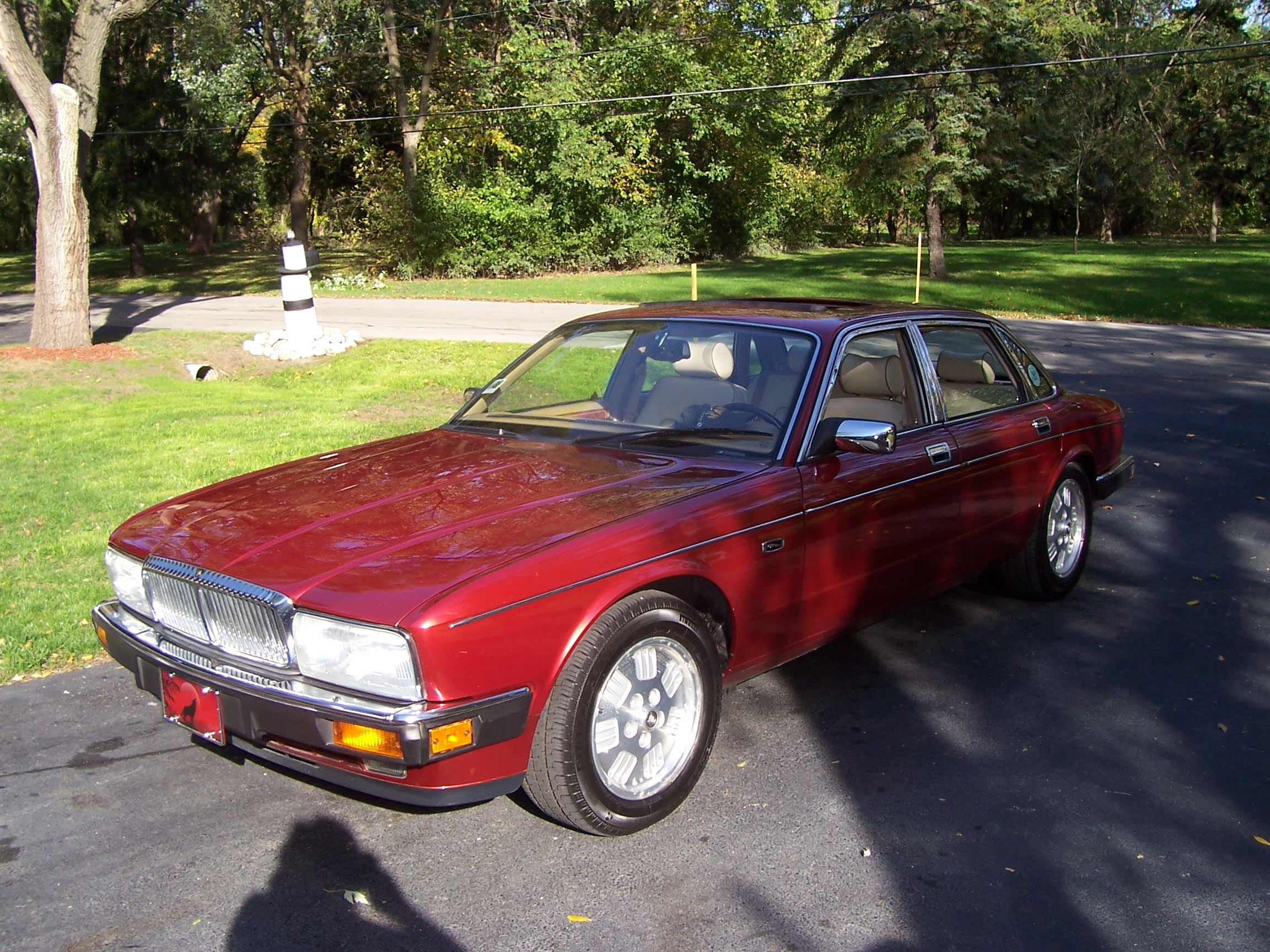 Jaguar XJ40 - Vanden Plas